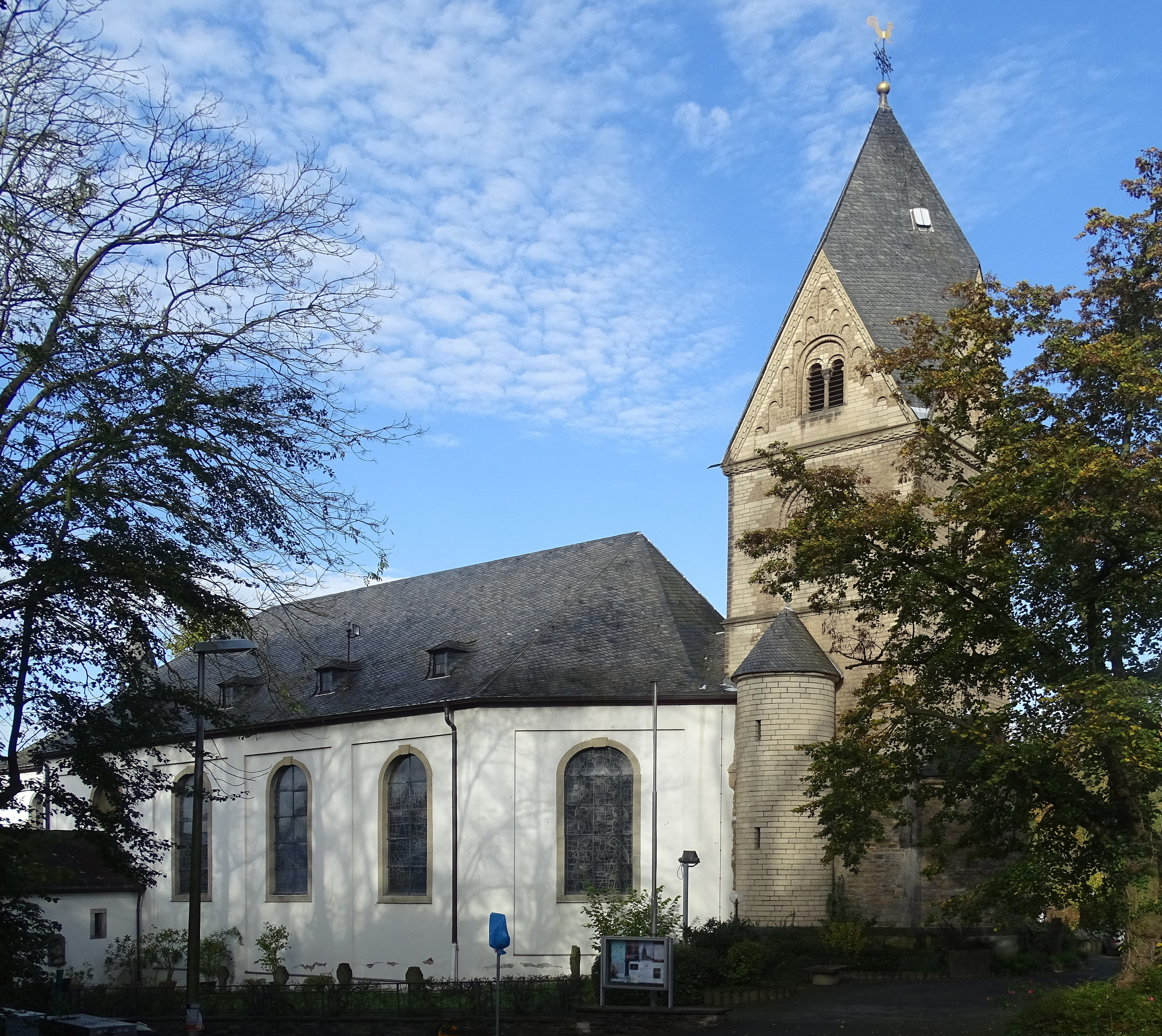 Catholic church of St. Laurentius in Oberdollendorf: view from the Rennenbergstraße